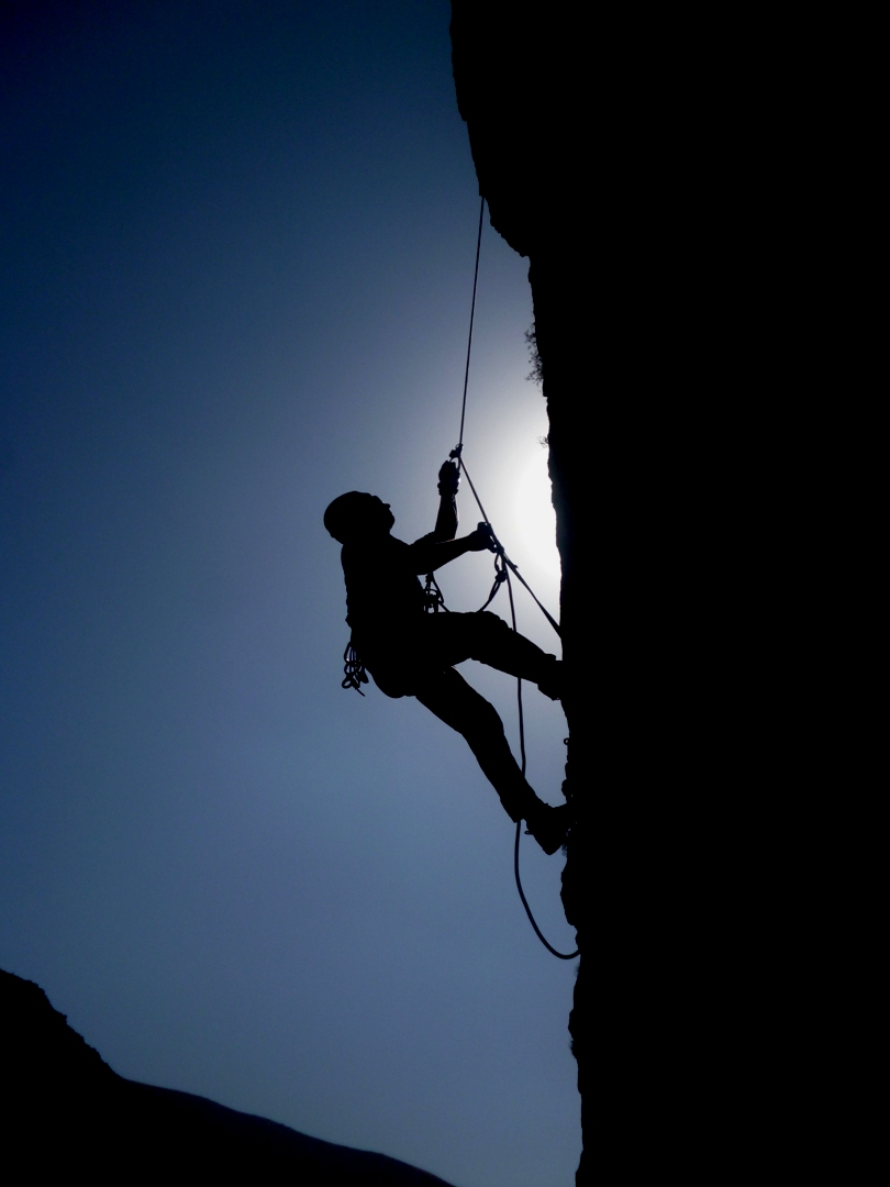 Kamar Zard Buzhan - Hiker - Nishapur